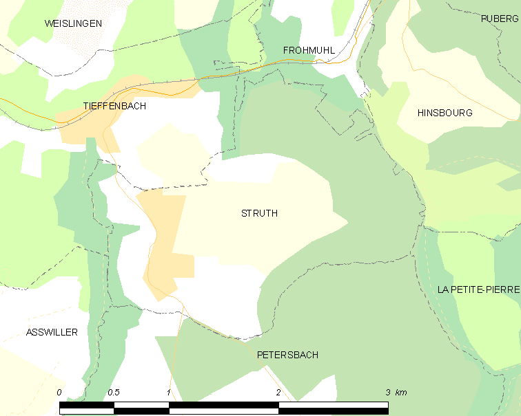 Map of French municipality